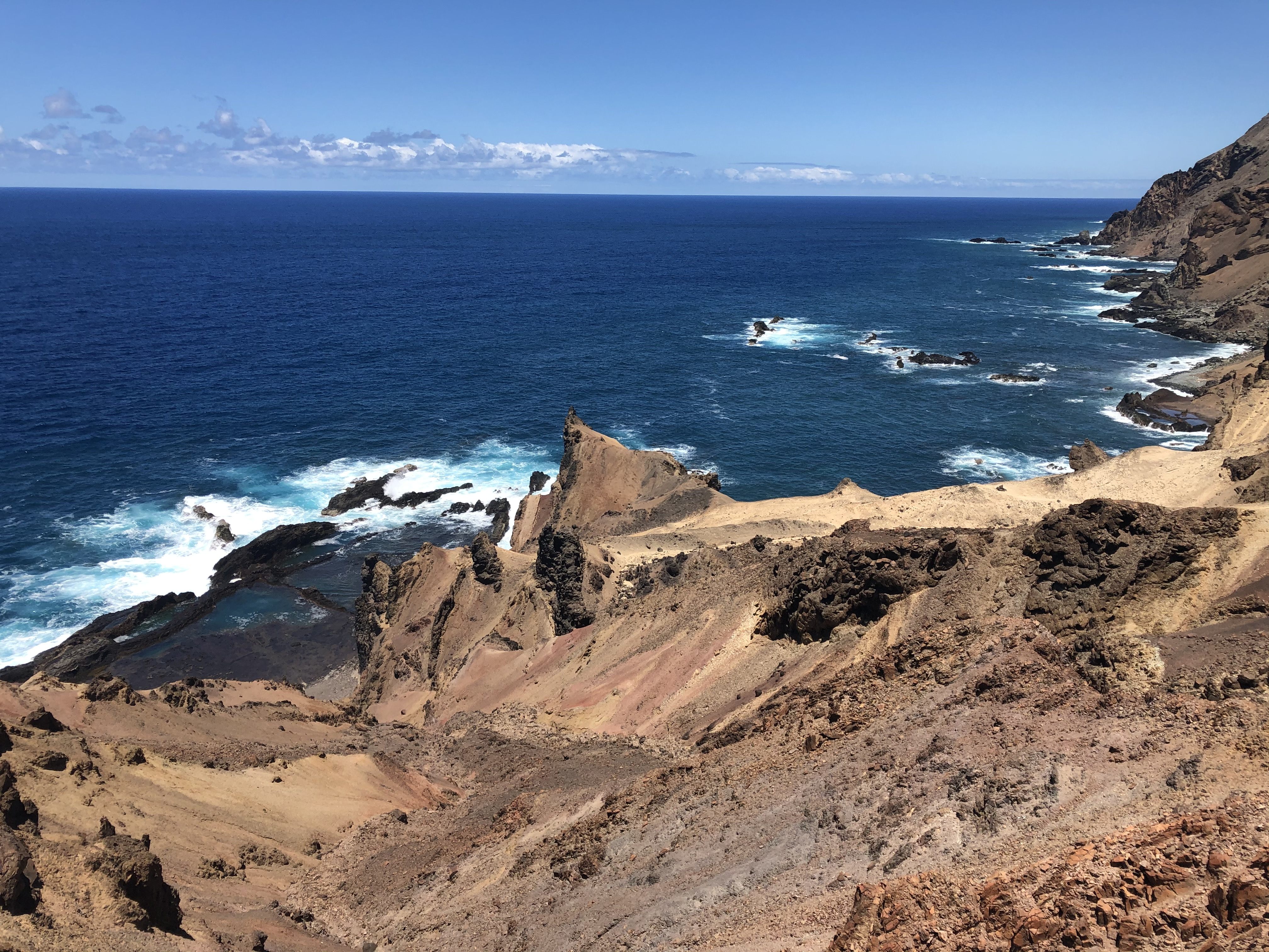 viewed from above, the tidal pools called Lot's Wife's Ponds are a popular swimming and fishing spot